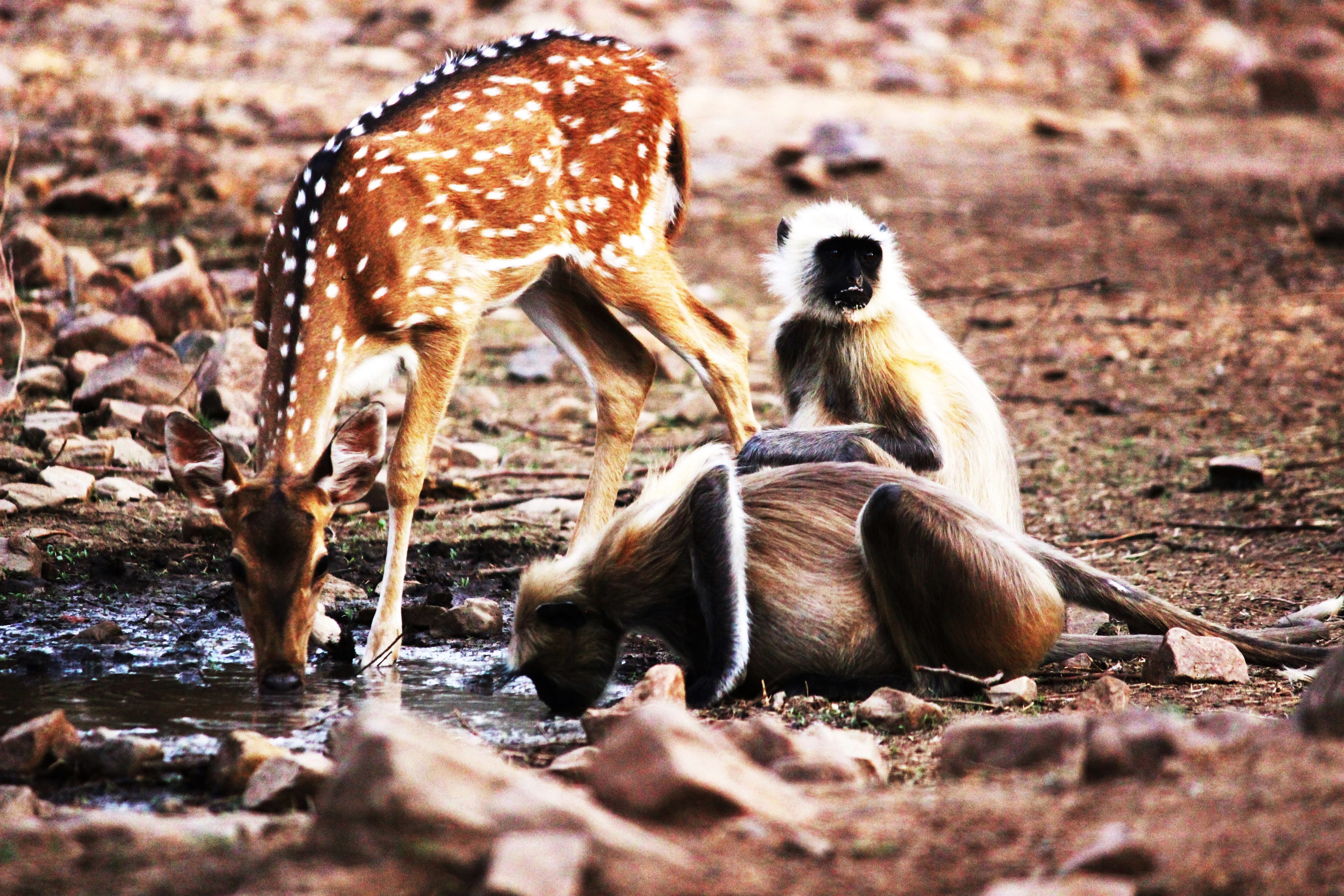 The photo was taken at Ranthambore National Park in the Indian state of Rajasthan on 4th June, 2016.